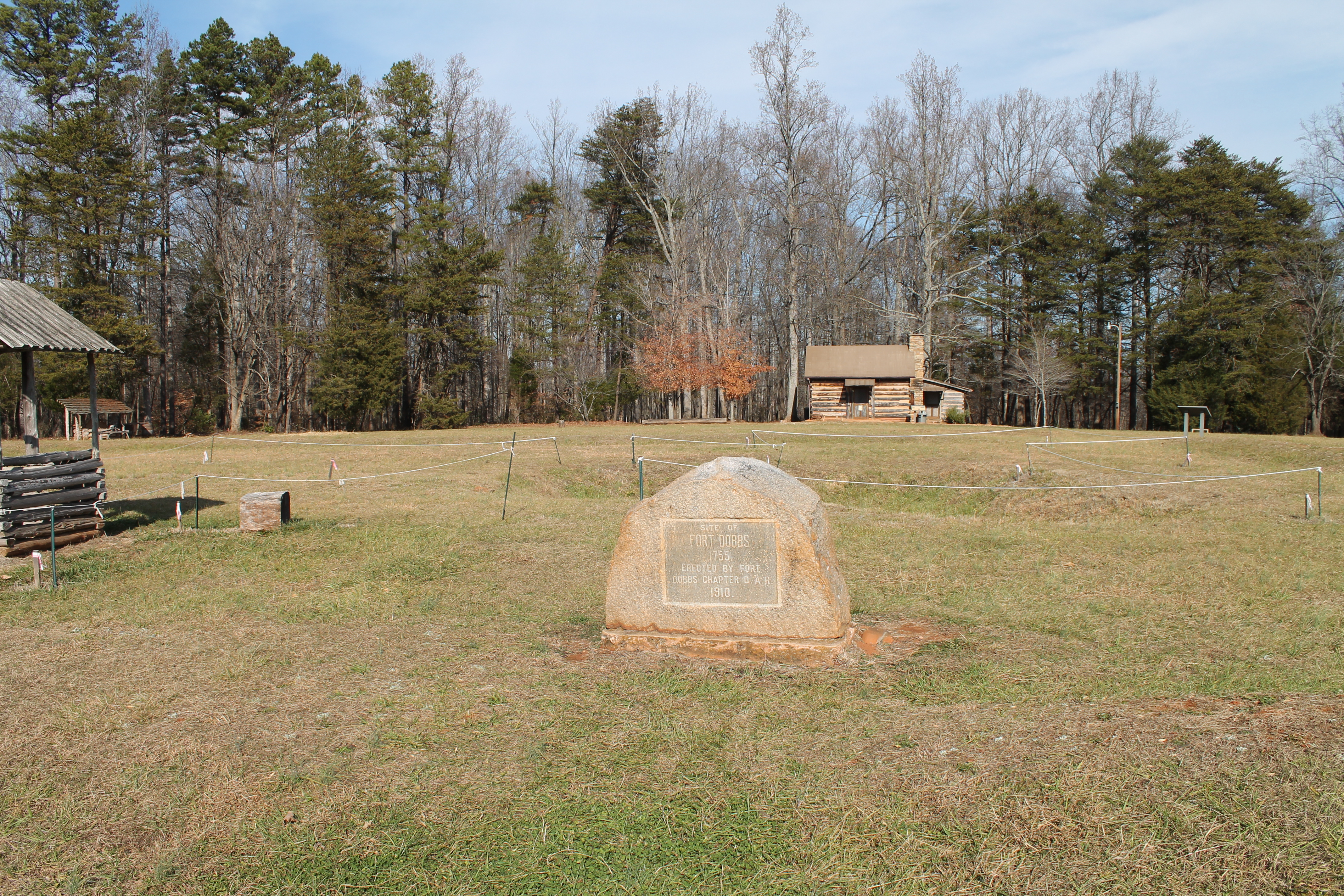 Photograph facing Fort Dobbs site from Fort Dobbs Road in Statesville, N.C.